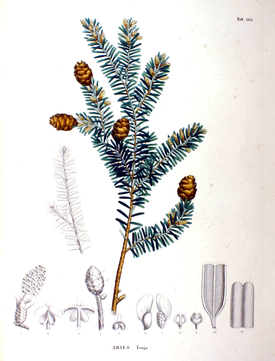 Plate from book